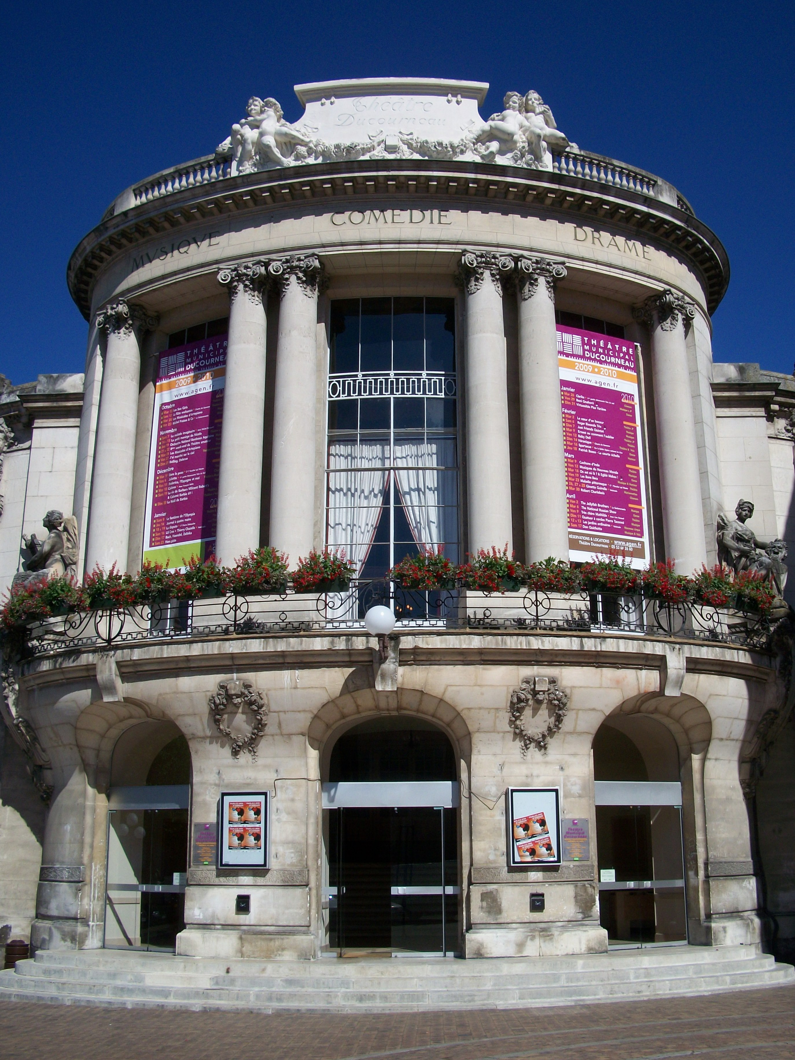 Ducourneau Theater (Agen, France)